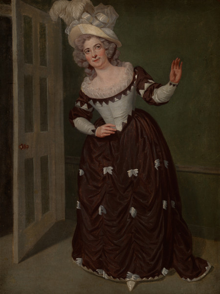 Mrs Rock born Miss Essex by Samuel de Wilde 1790s ???